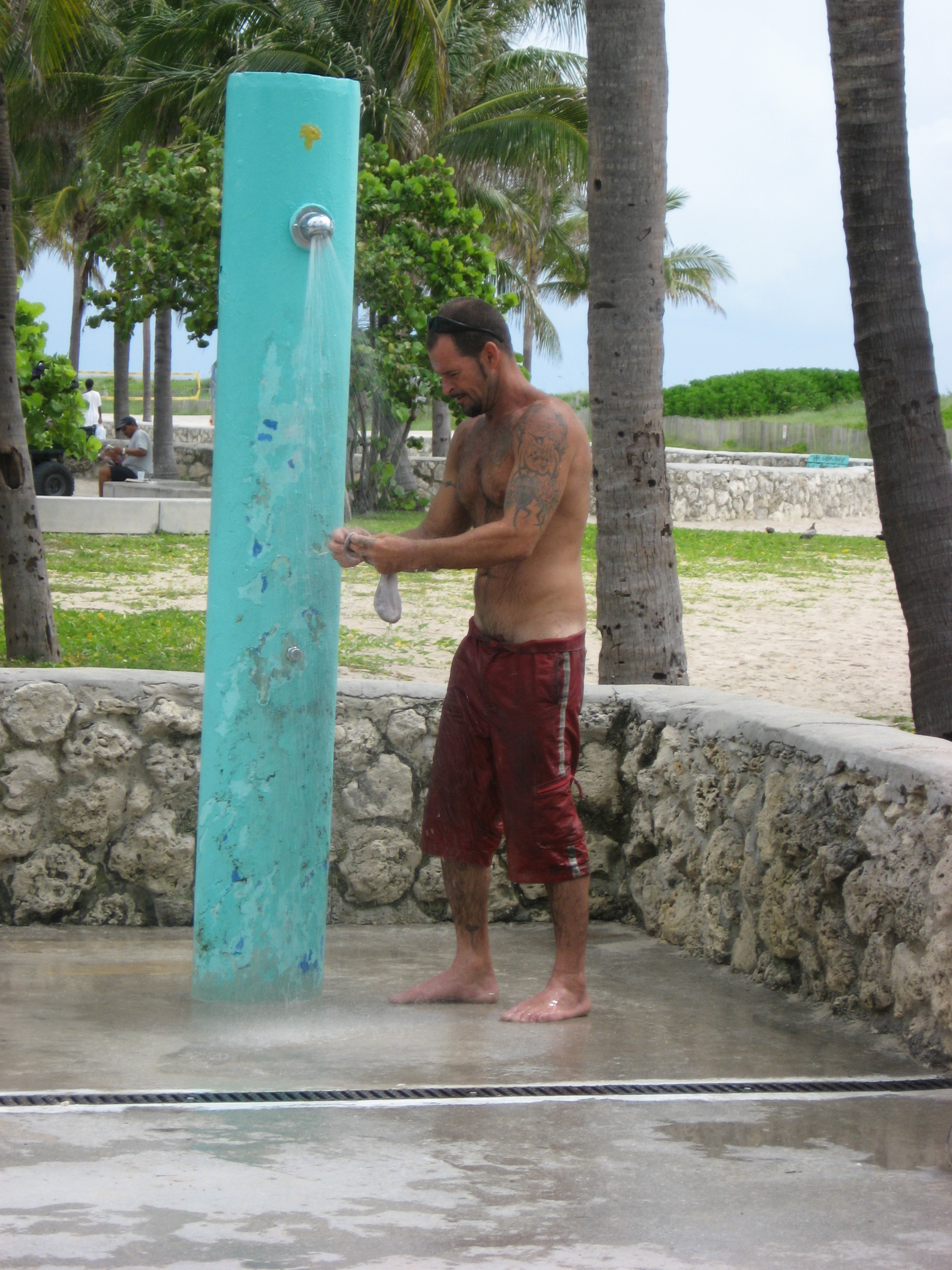 Homeless guy showering in South Beach.